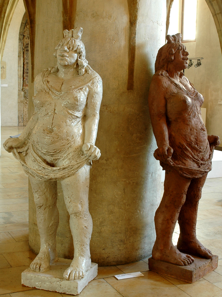 Sculptures: Julia-cheap girl (1978), rough and glazed burnt clay, author: Bohumil Zemánek